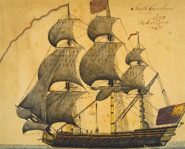 Painting signed and dated 1793, thought to represent the South Carolina, early American frigate